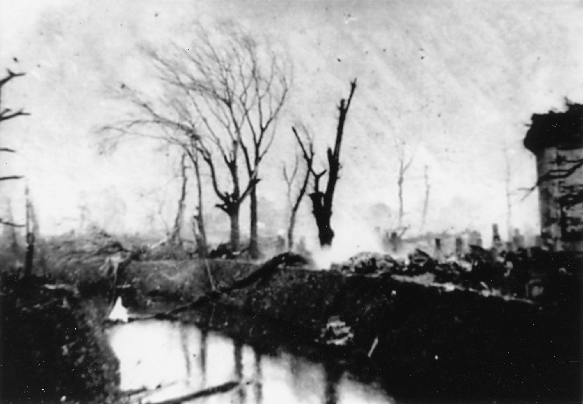 Kakigawa River after Nagaoka Air Raid.